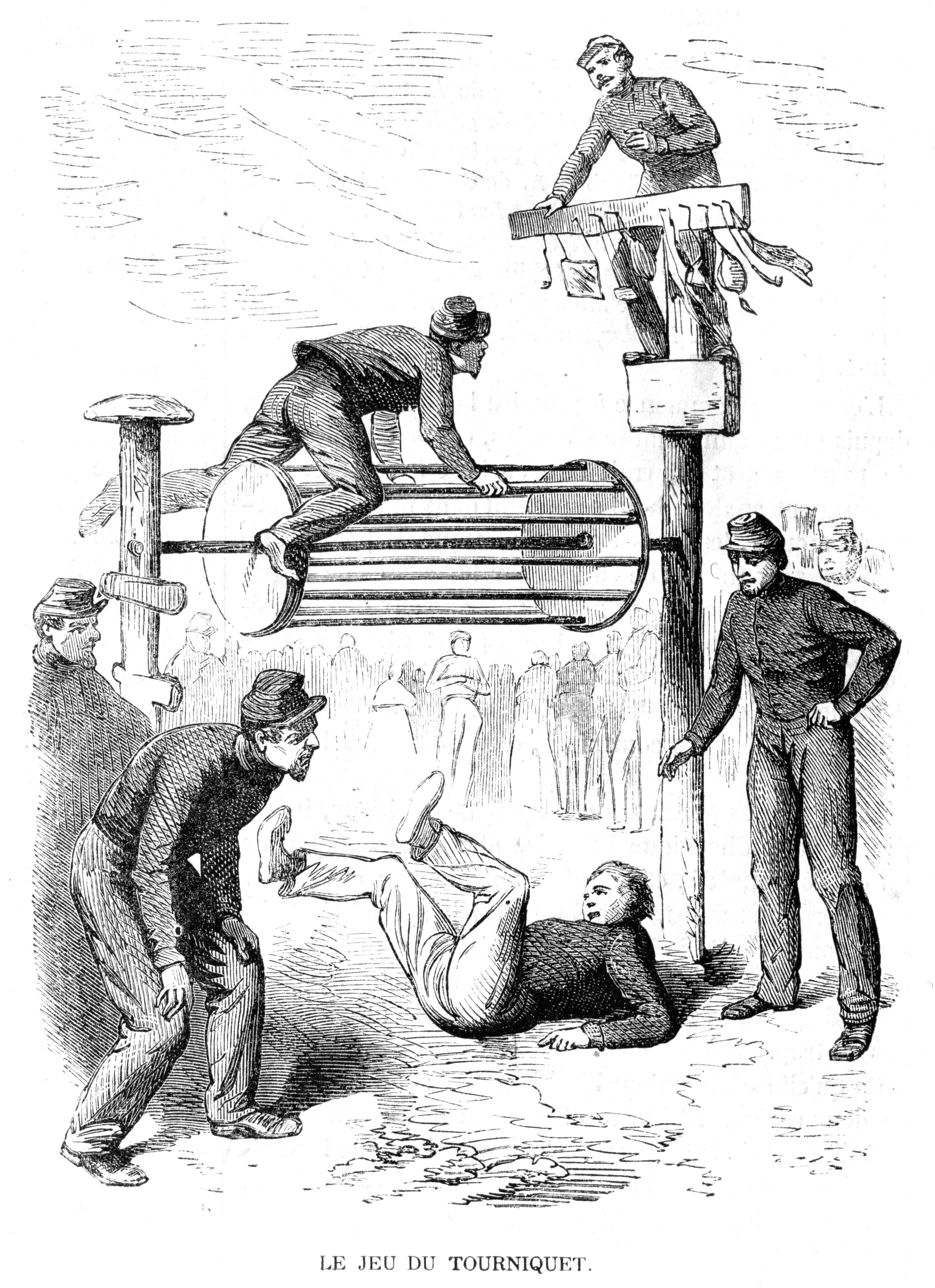 L'Illustration 1862 gravure Le jeu du tourniquet